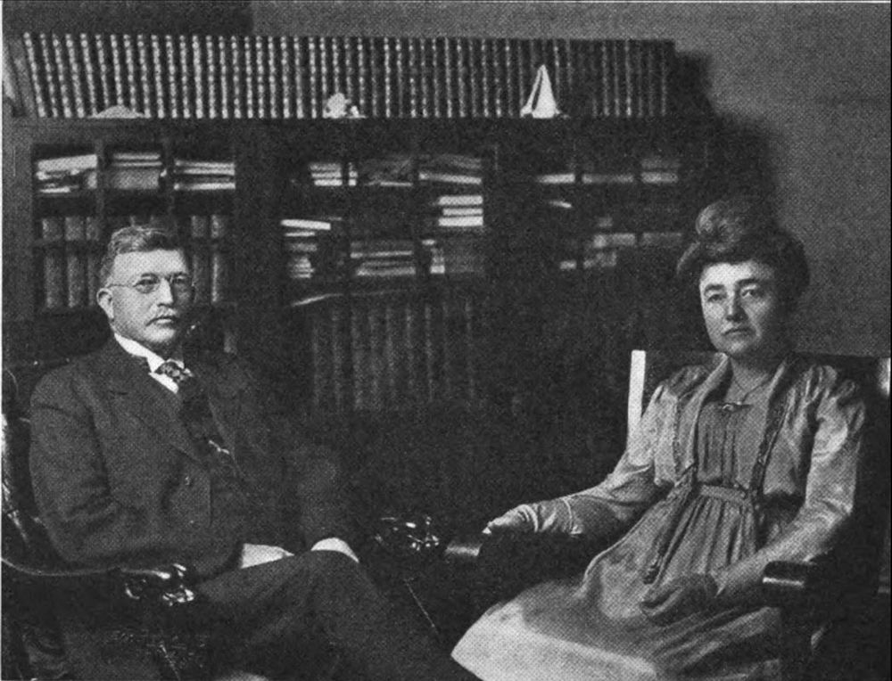 Doctor Horace P. Belknap and his wife Wilda in 1922